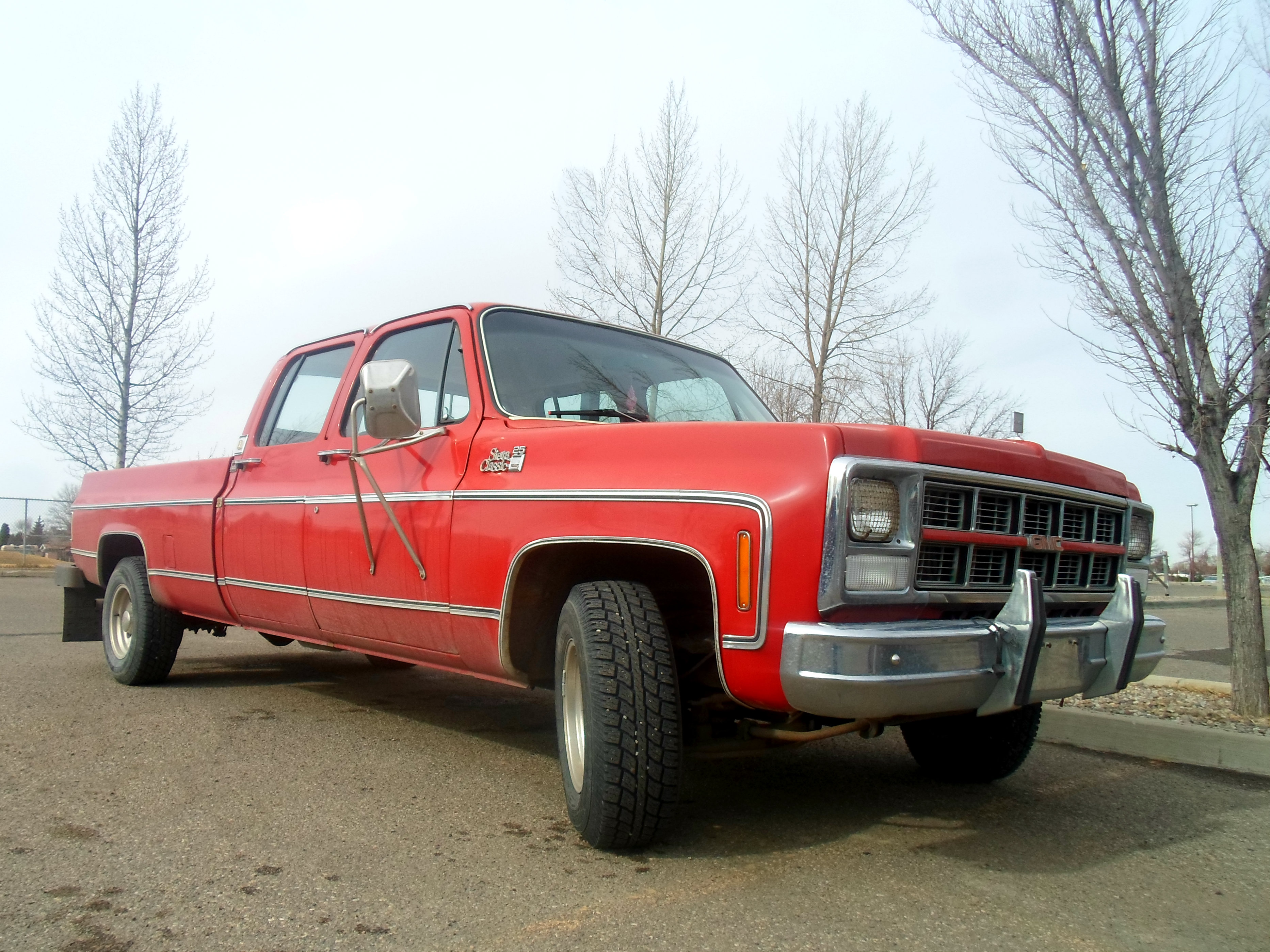 A big crew cab GMC Sierra Classic pickup truck in red. I believe this is a 1980 model.